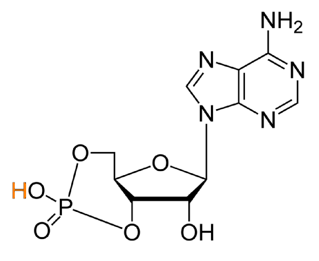 Derivative of Cyclic-adenosine-monophosphate-2D-skeletal3.png